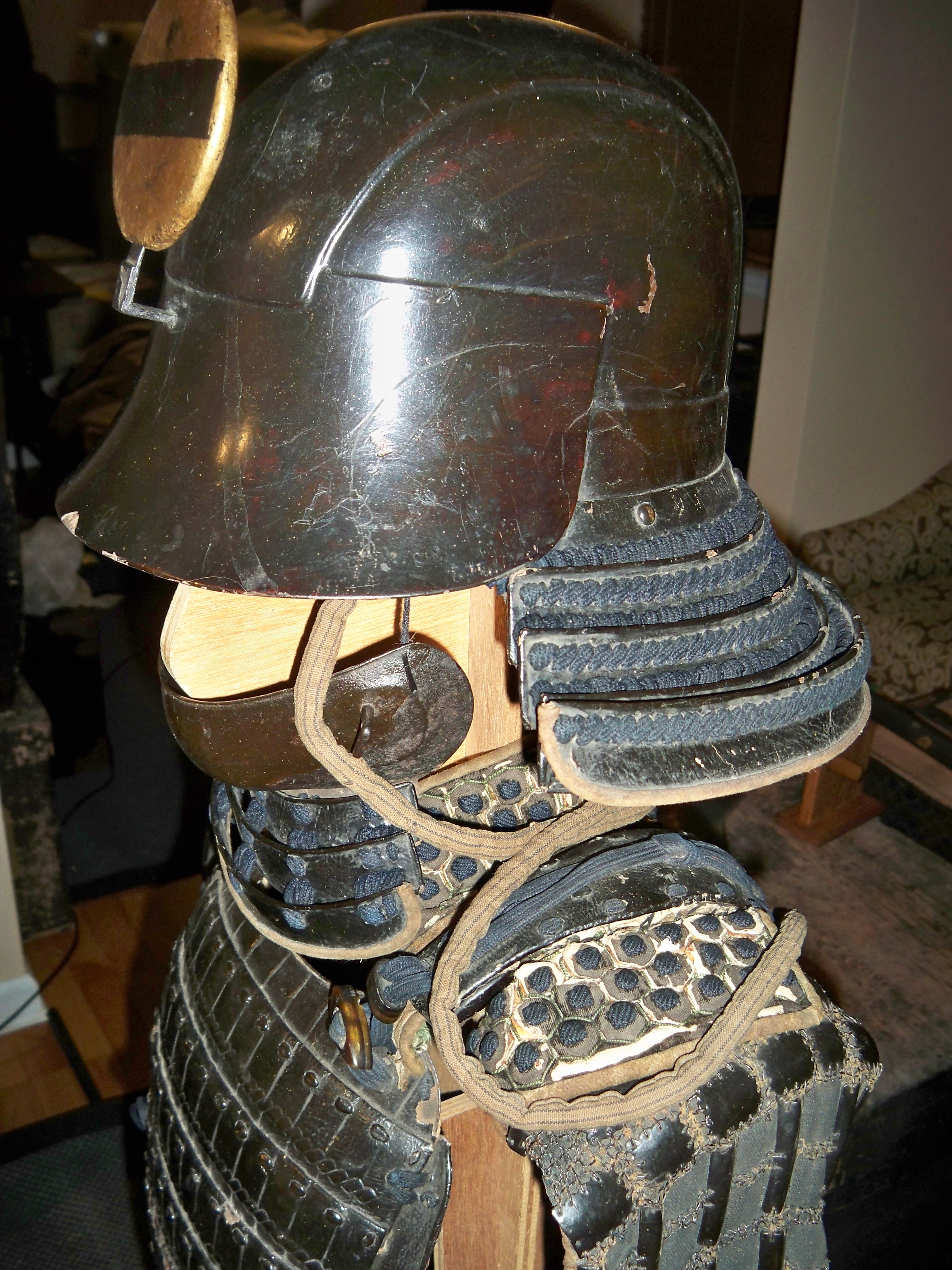 Antique Japanese (samurai) Edo period 1600s Etchu zunari kabuto.